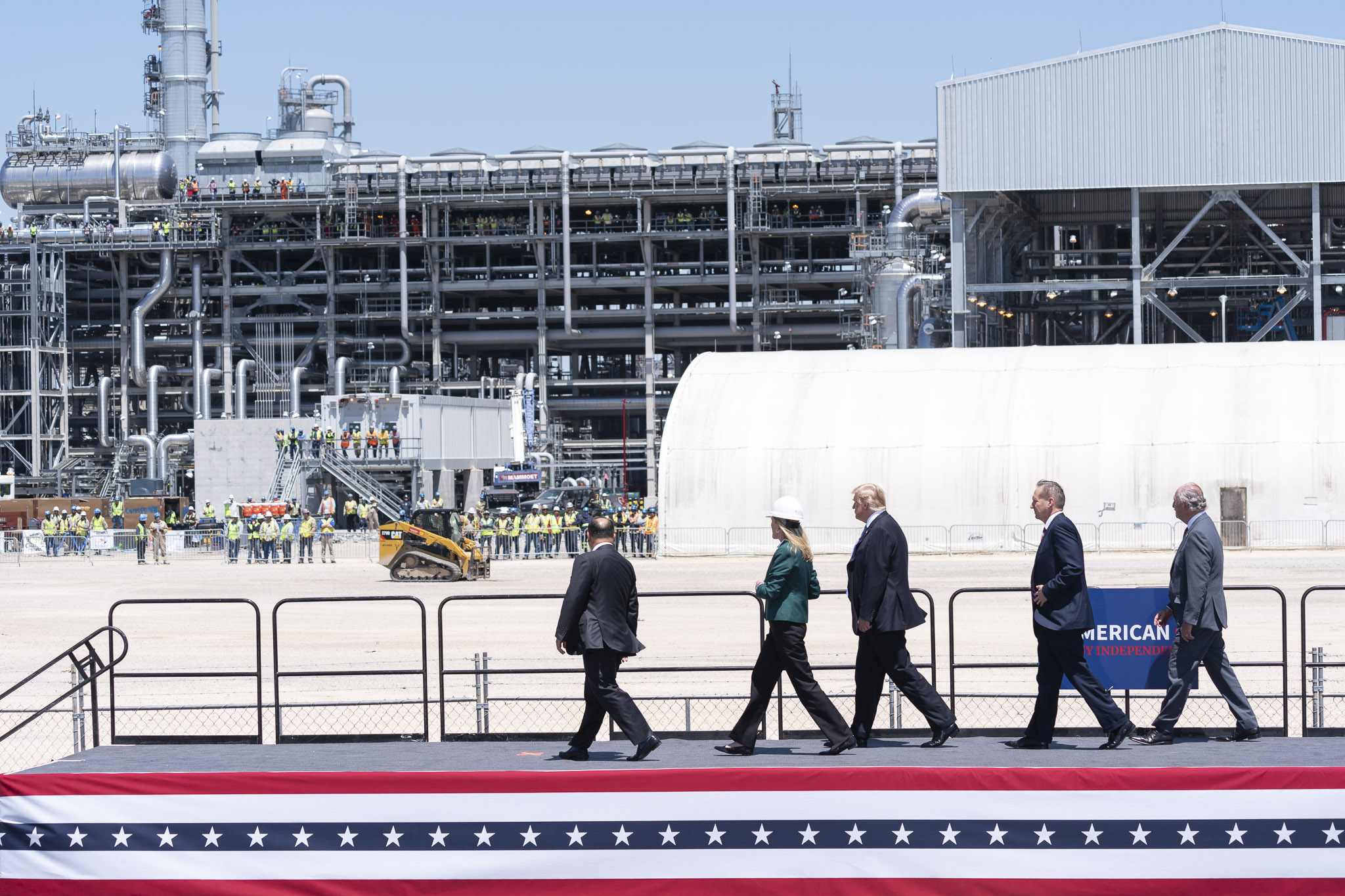 President Donald J. Trump participates in a walking tour of Cameron LNG Export Terminal Tuesday, May 14, 2019, in Hackberry, La. (Official White House Photo by Shealah Craighead)